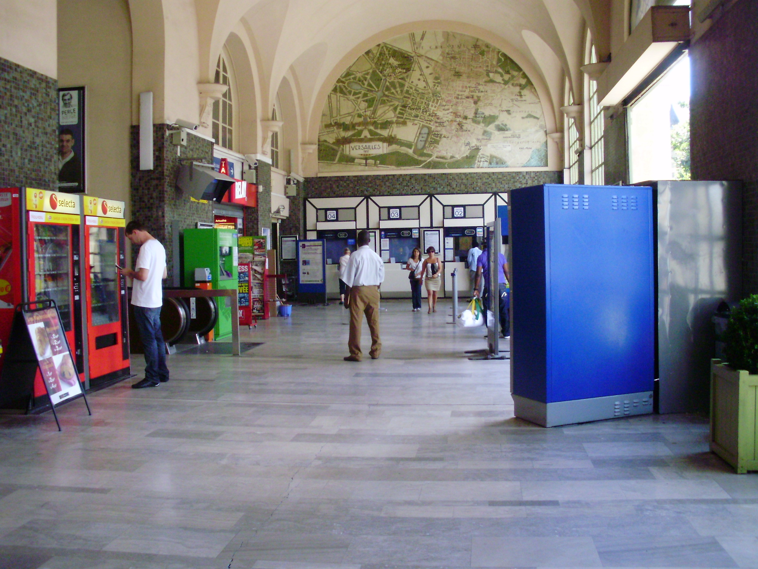 Versailles-Rive-Droite station, in Versailles, Yvelines, France (hall of the station)